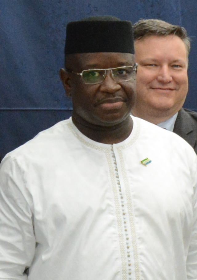 Julius Maada Bio (fifth from left) standing with a delegation from the US White House on the eve of his inauguration